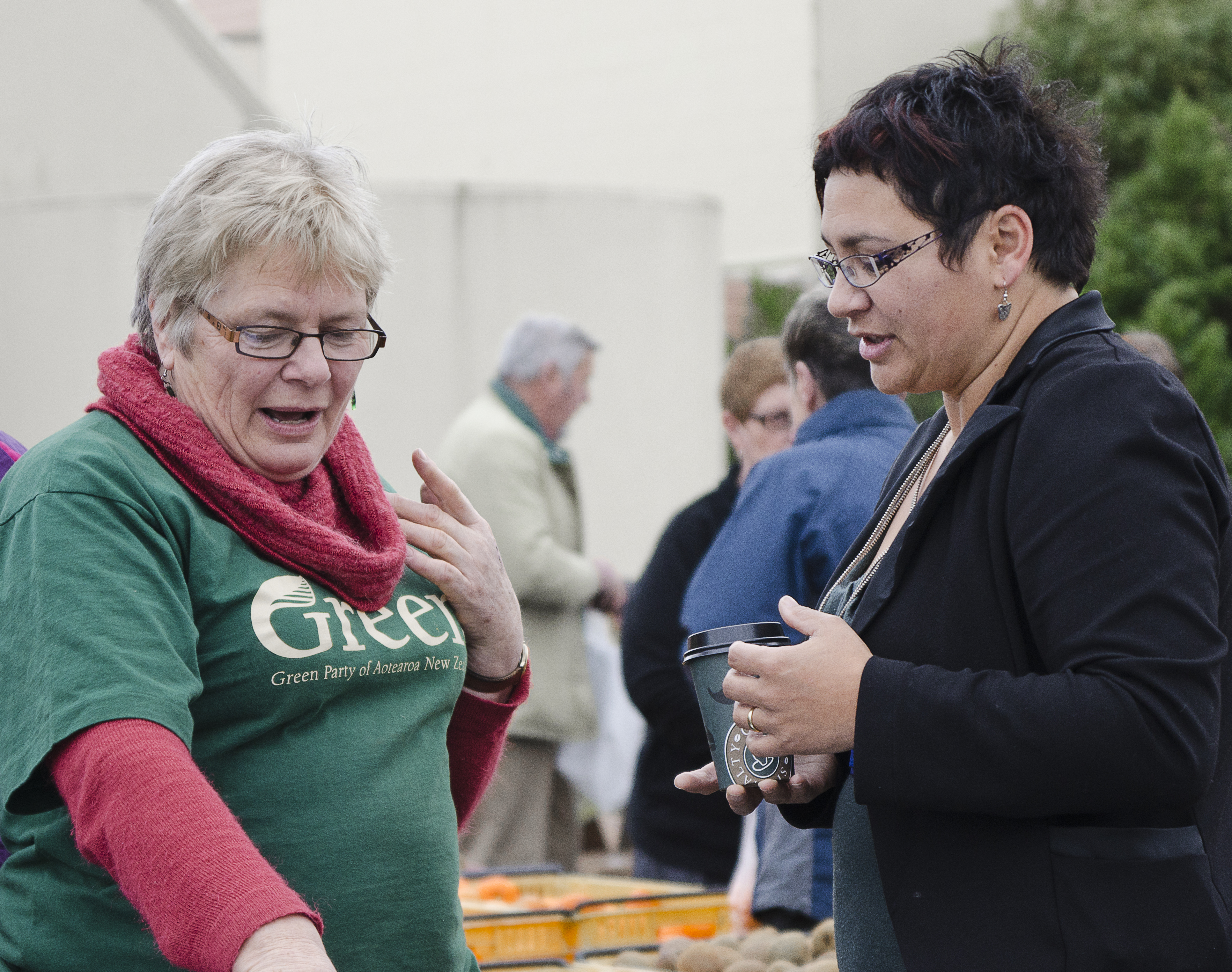 Metiria Turei speaks to a Green Party supporter in Palmerston North